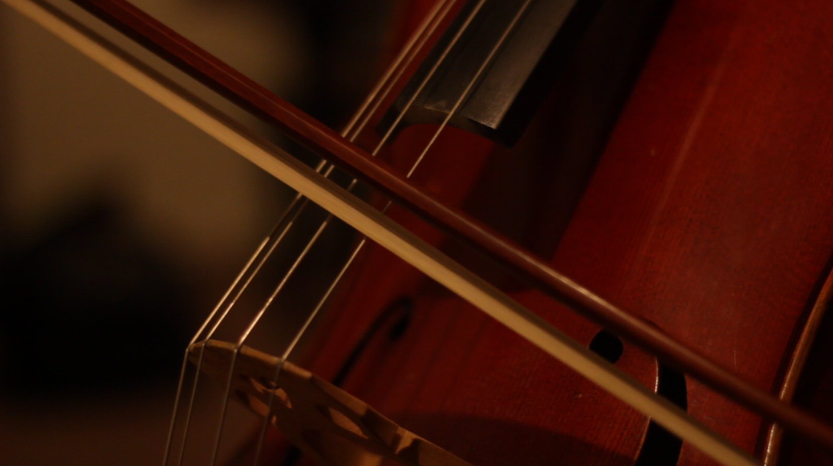 Cello from the Architects 'Lost Together / Lost Forever' recording session